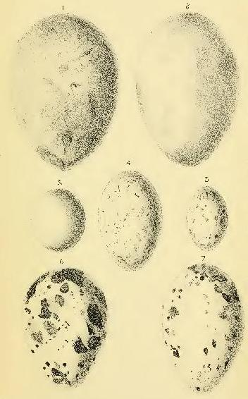 5: egg of Aplonis fuscus hullianus. From Lord Howe Island. Its Zoology, Geology, and Physical Characters. THE AUSTRALIAN MUSEUM, SYDNEY. MEMOIRS, No. 2. 1889